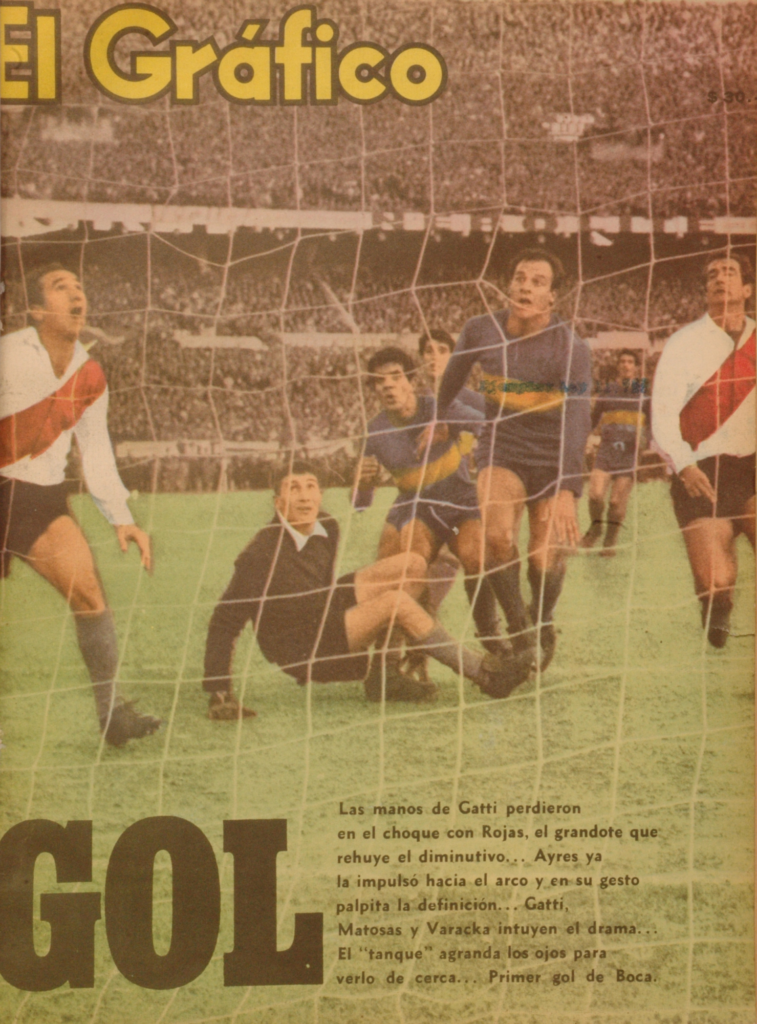 River (1) v Boca (2), scene of the Superclásico.